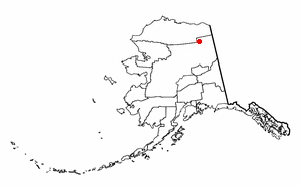 Adapted from Wikipedia's AK borough maps by Seth Ilys.